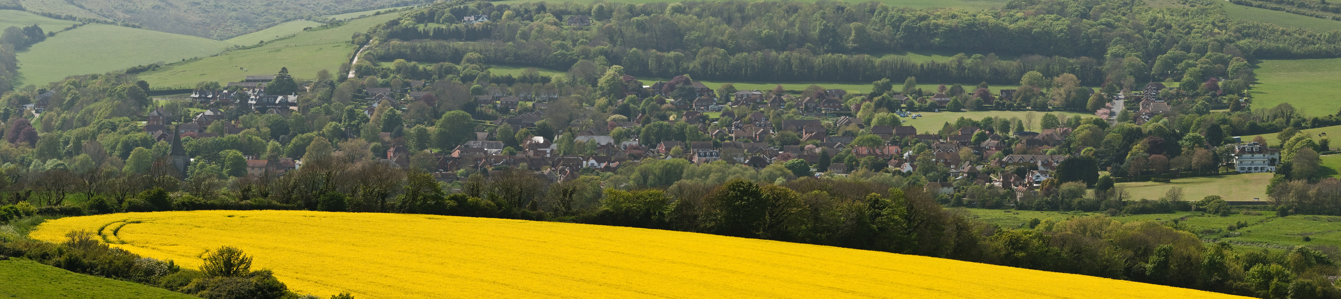 A panoramic view of the village of Alfriston in East Sussex, England.